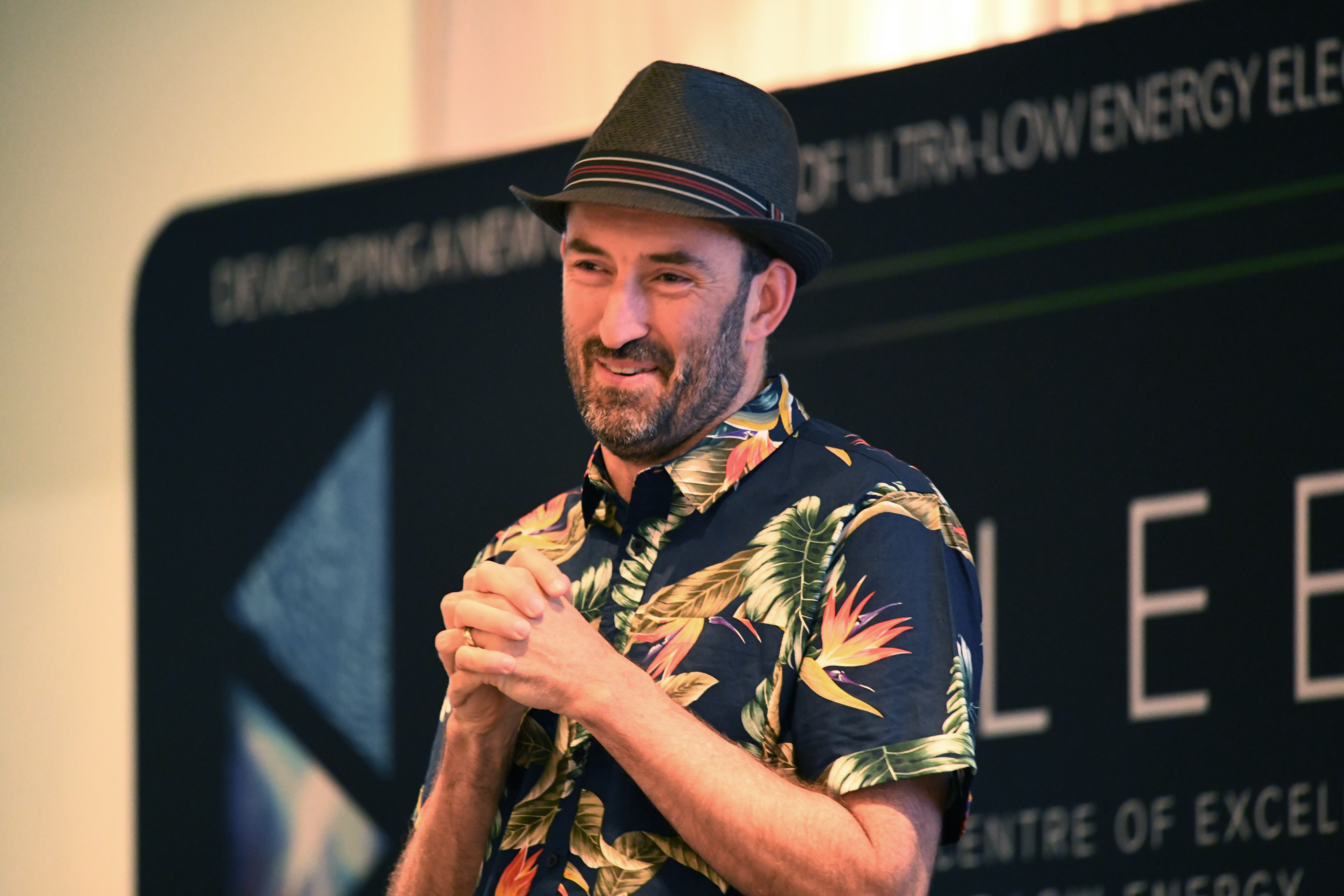 Photo of Professor Jared Cole, RMIT